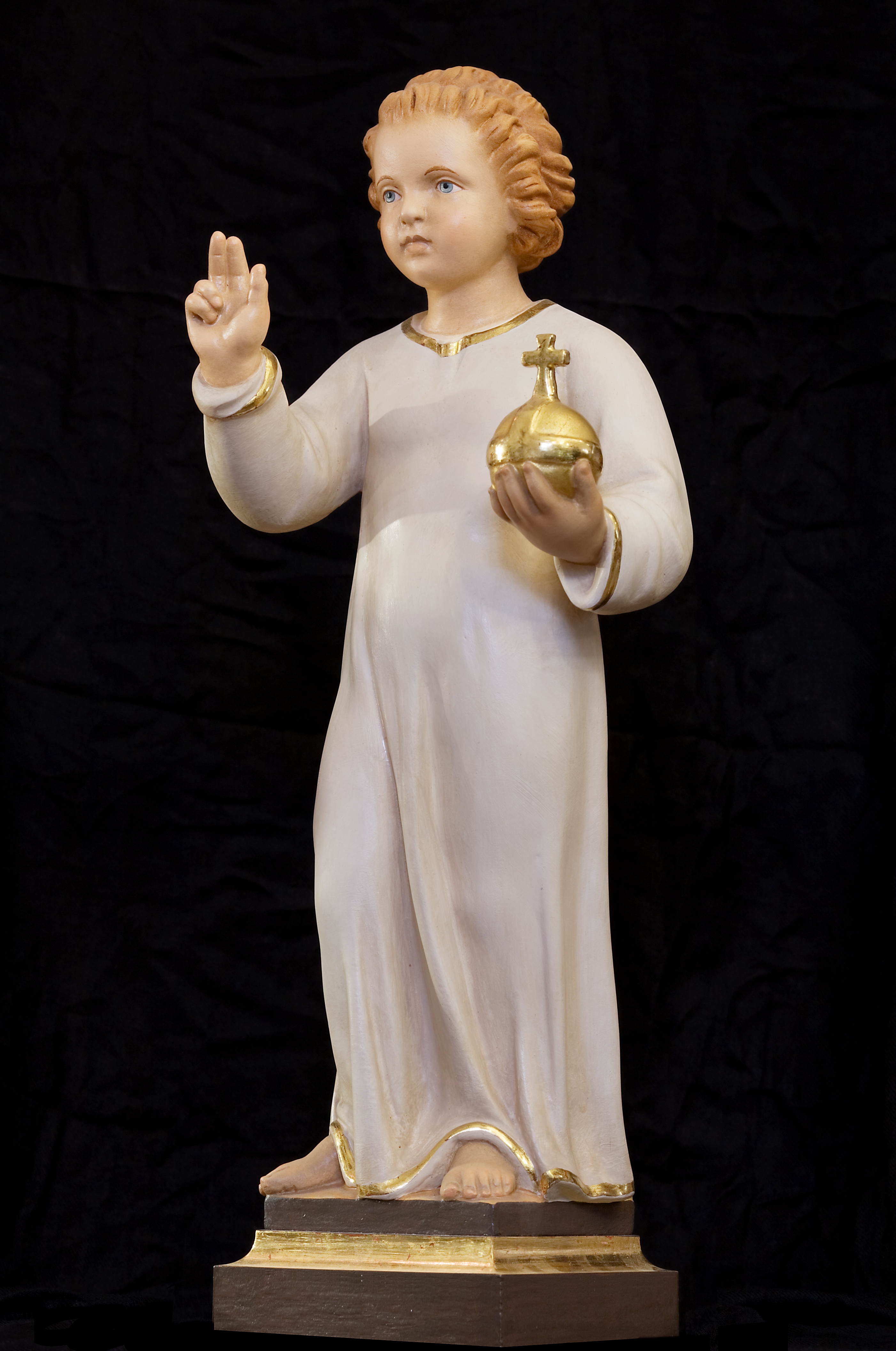 Infant jesus of prague- Das Prager Jesuskind- El niño jesus de Praga, Prague